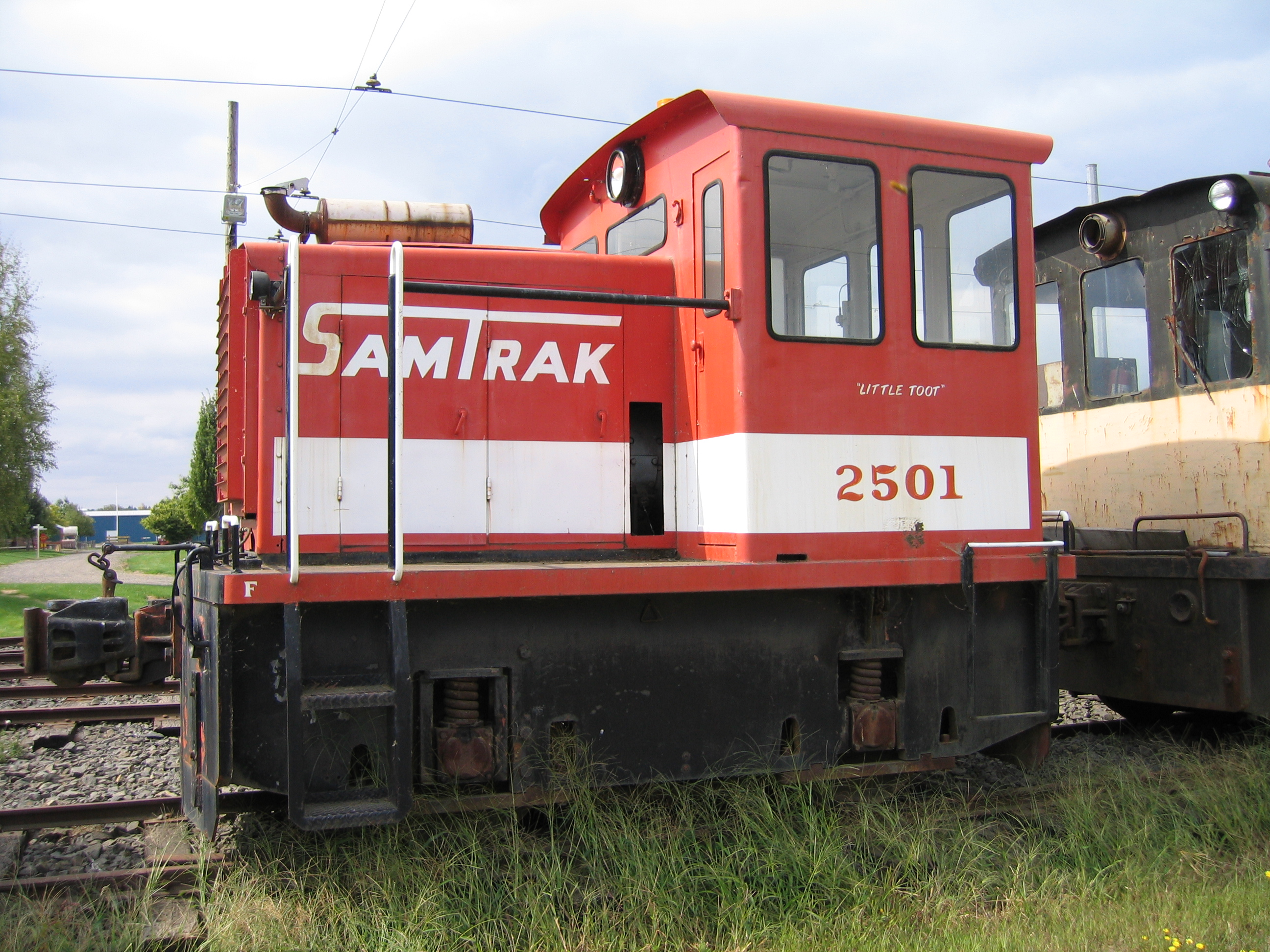 Picture of the small (25 ton) Samtrak engine taken September 15, 2007 at the Oregon Electric Railway Museum in Brooks, Oregon.